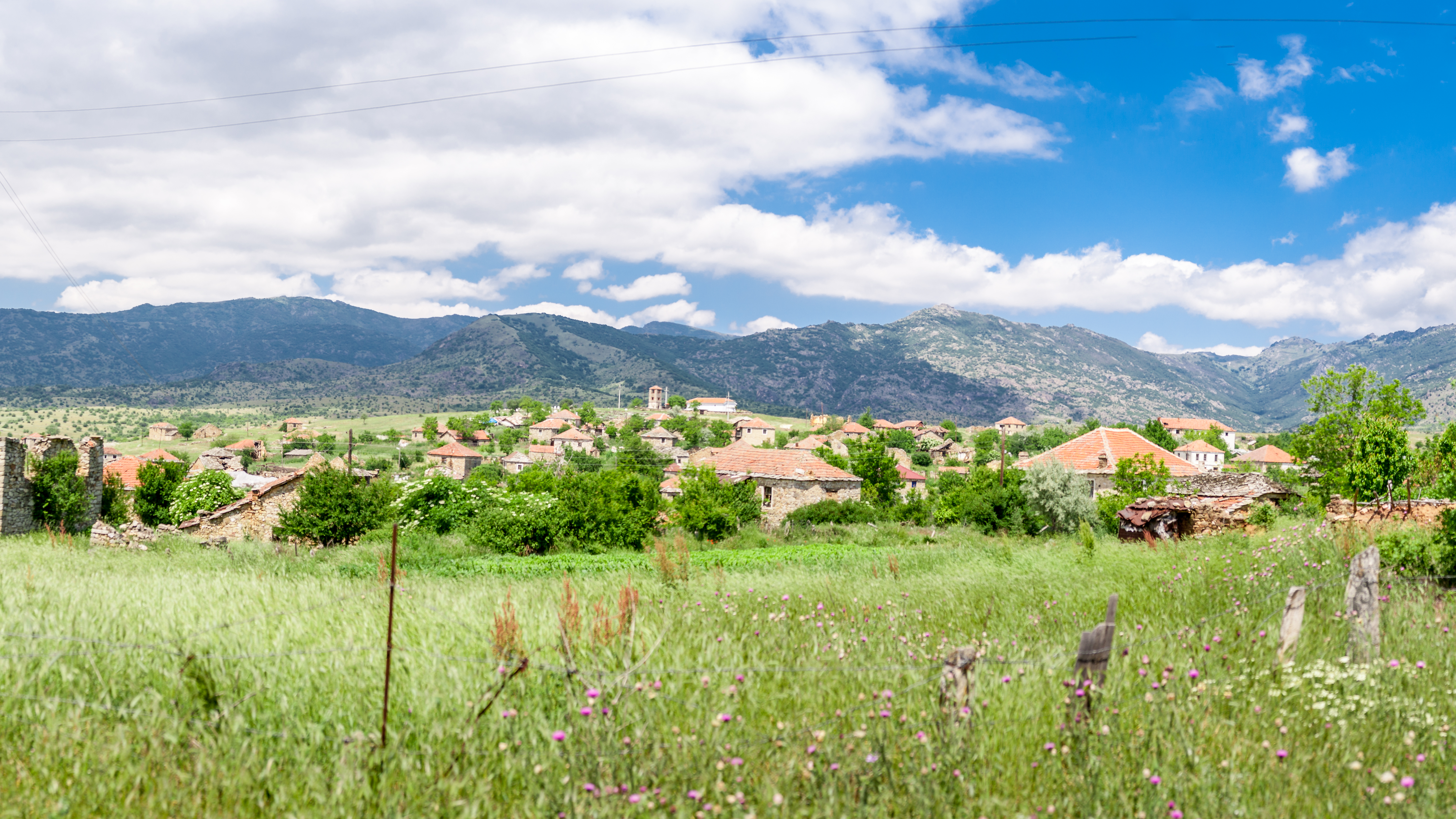 Panoramic view of the village Dunje